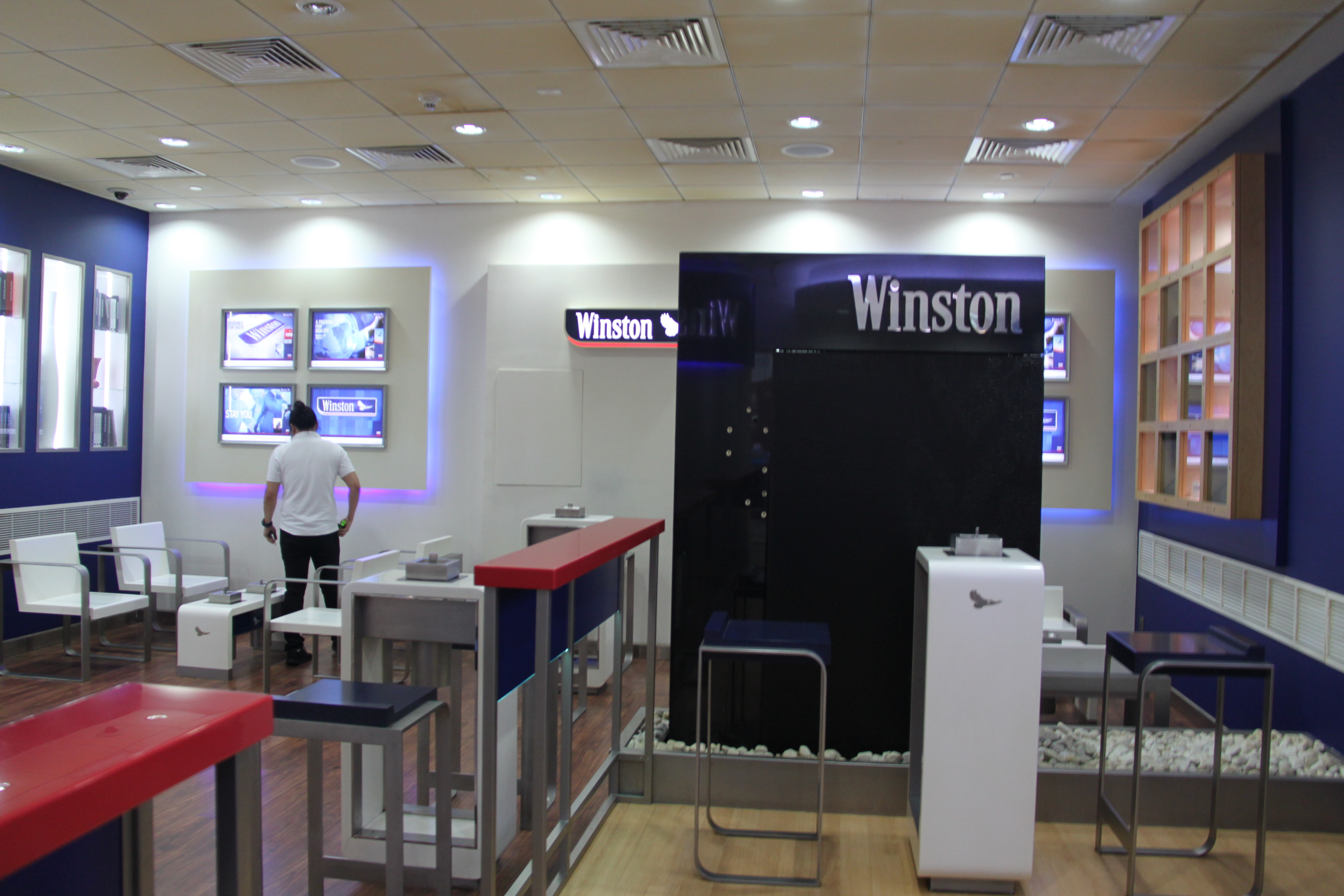 A smoking room sponsered by Winston at Dubai International Airport.